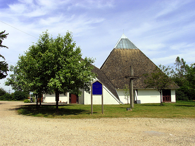 Church of England parish church of St Stephen, Upper Basildon, Berkshire.